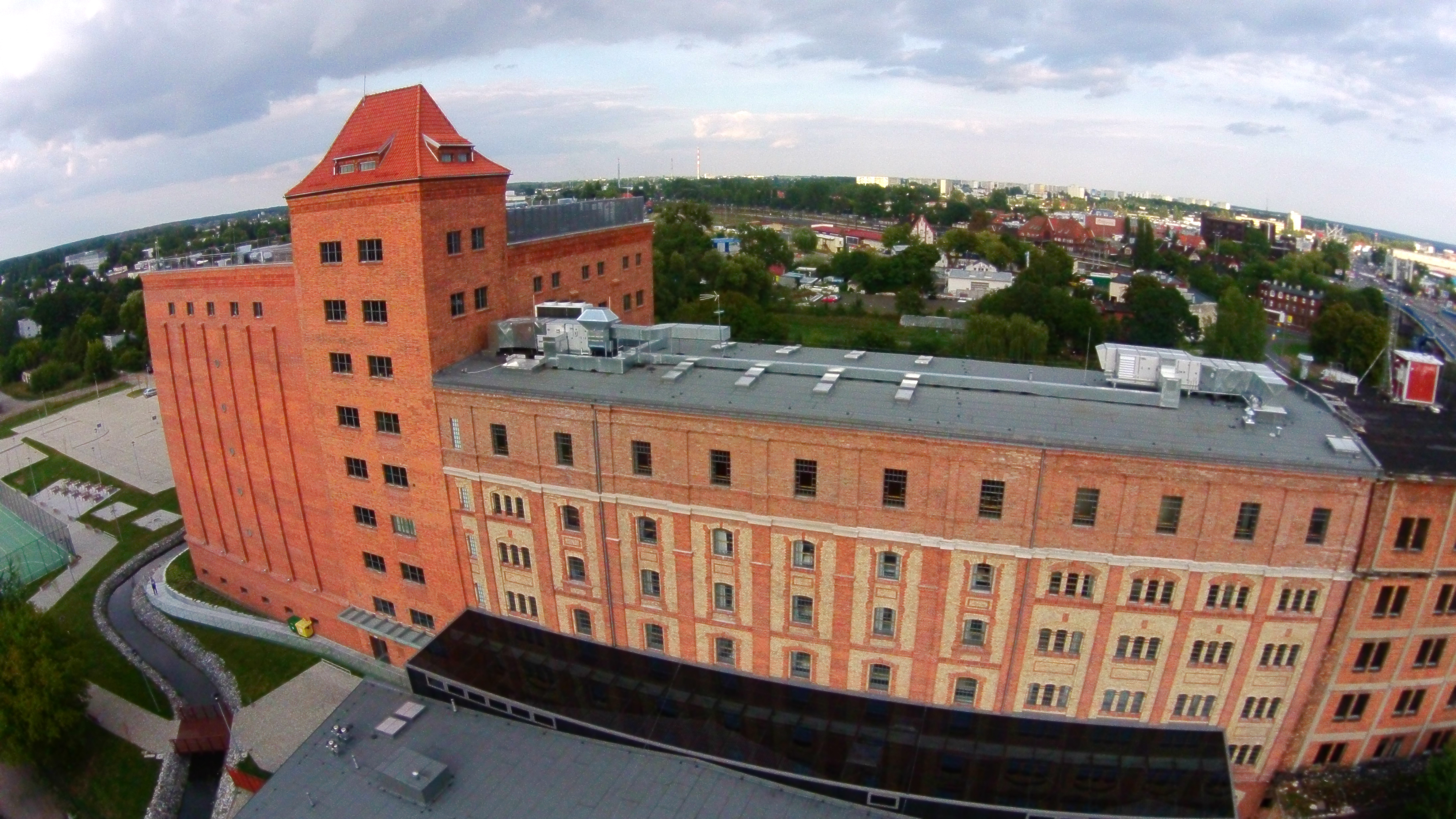 Widok Młynó Richtera od strony ul. Dworcowej